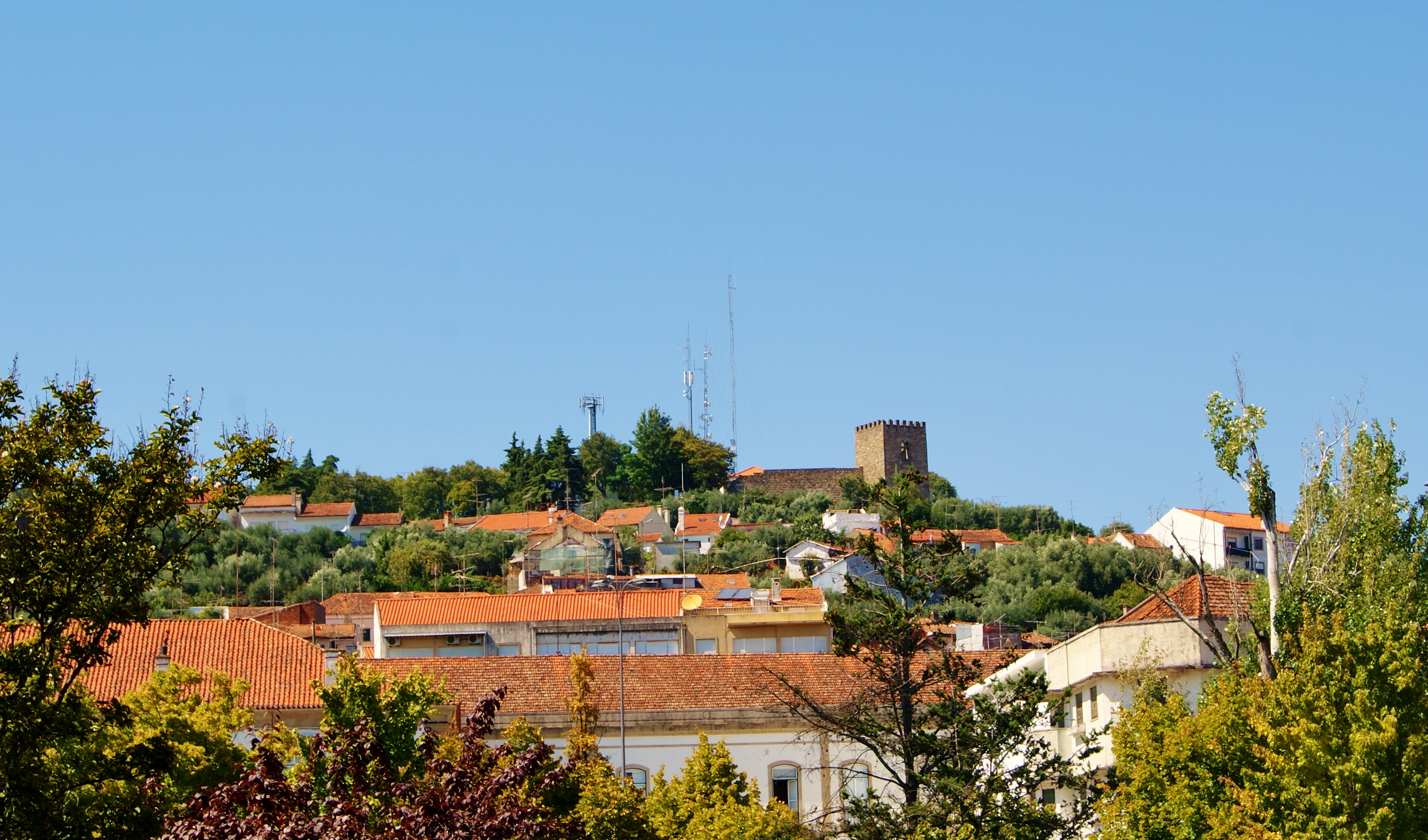 This monument is classified as Sem protecção legal. This file was uploaded for Wiki Loves Monuments in Portugal with the unique identifier 71175.